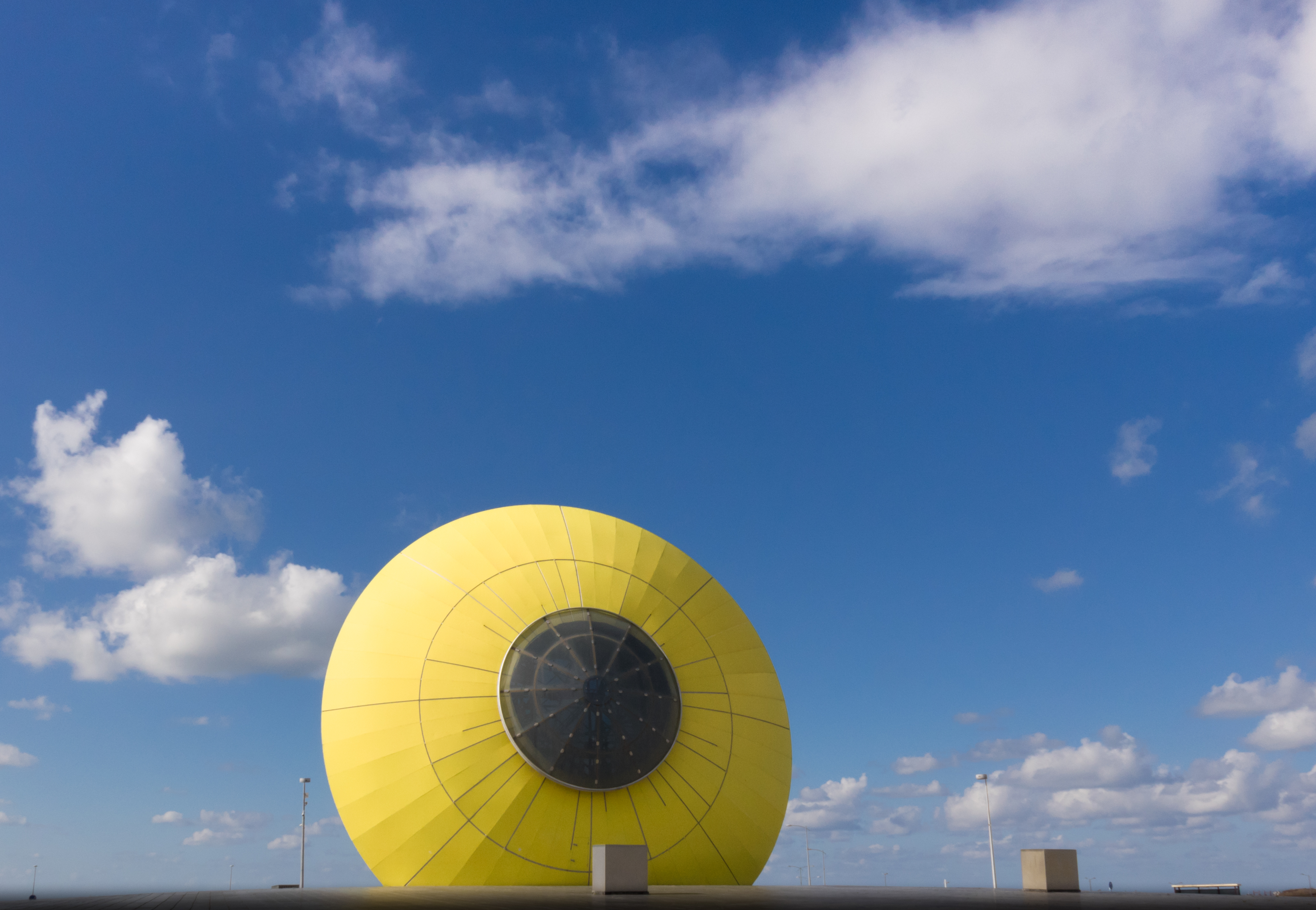 Ashdod, landscape sculpture